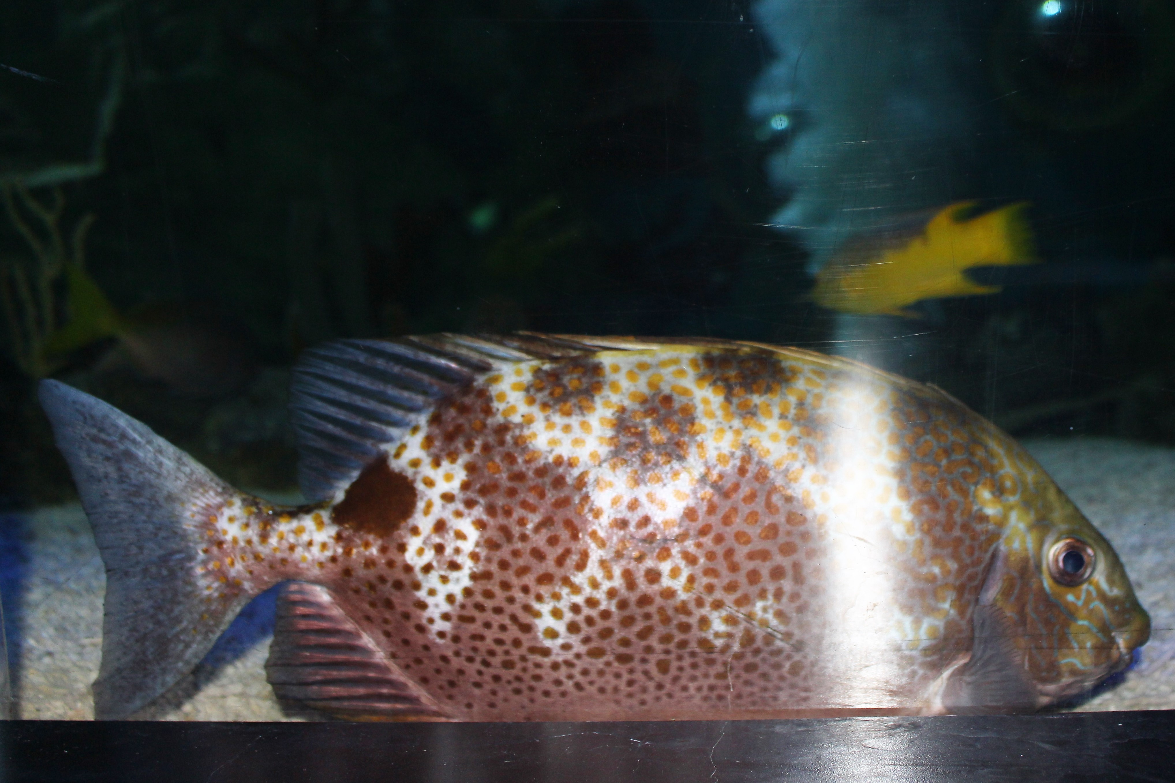 Epinephelus analogus in Southend-on-Sea aquarium, England.